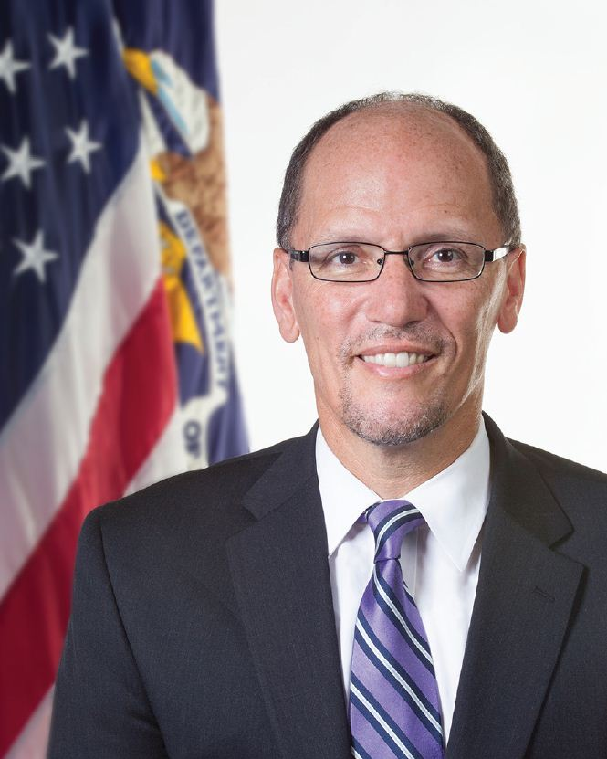 Official portrait of United States Secretary of Labor Tom Perez